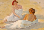 Harold Bengen, Louise and Emmy